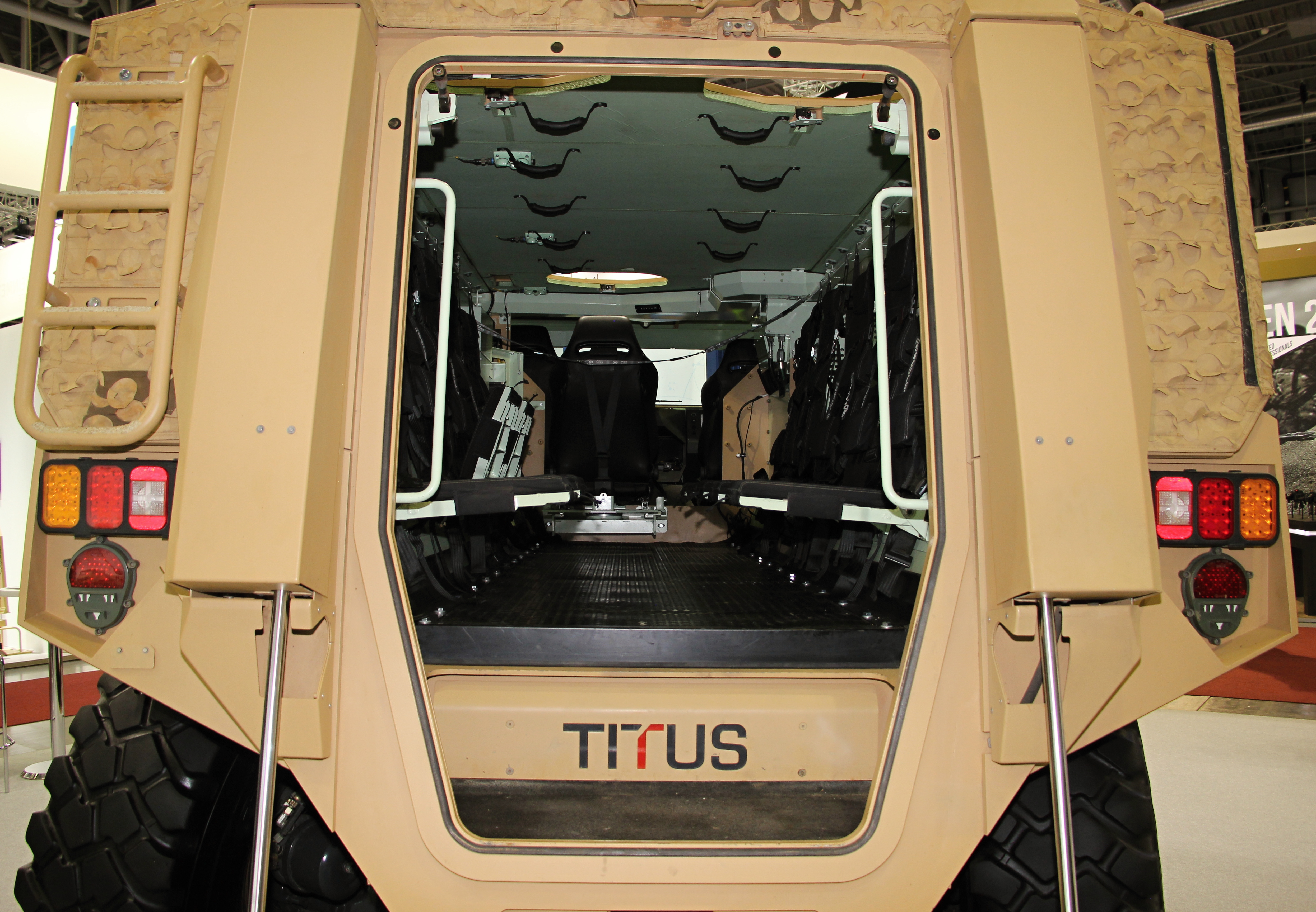 TITUS by NEXTER on TATRA chassis, IDET 2017, Brno Exhibition Center, Czech Republic